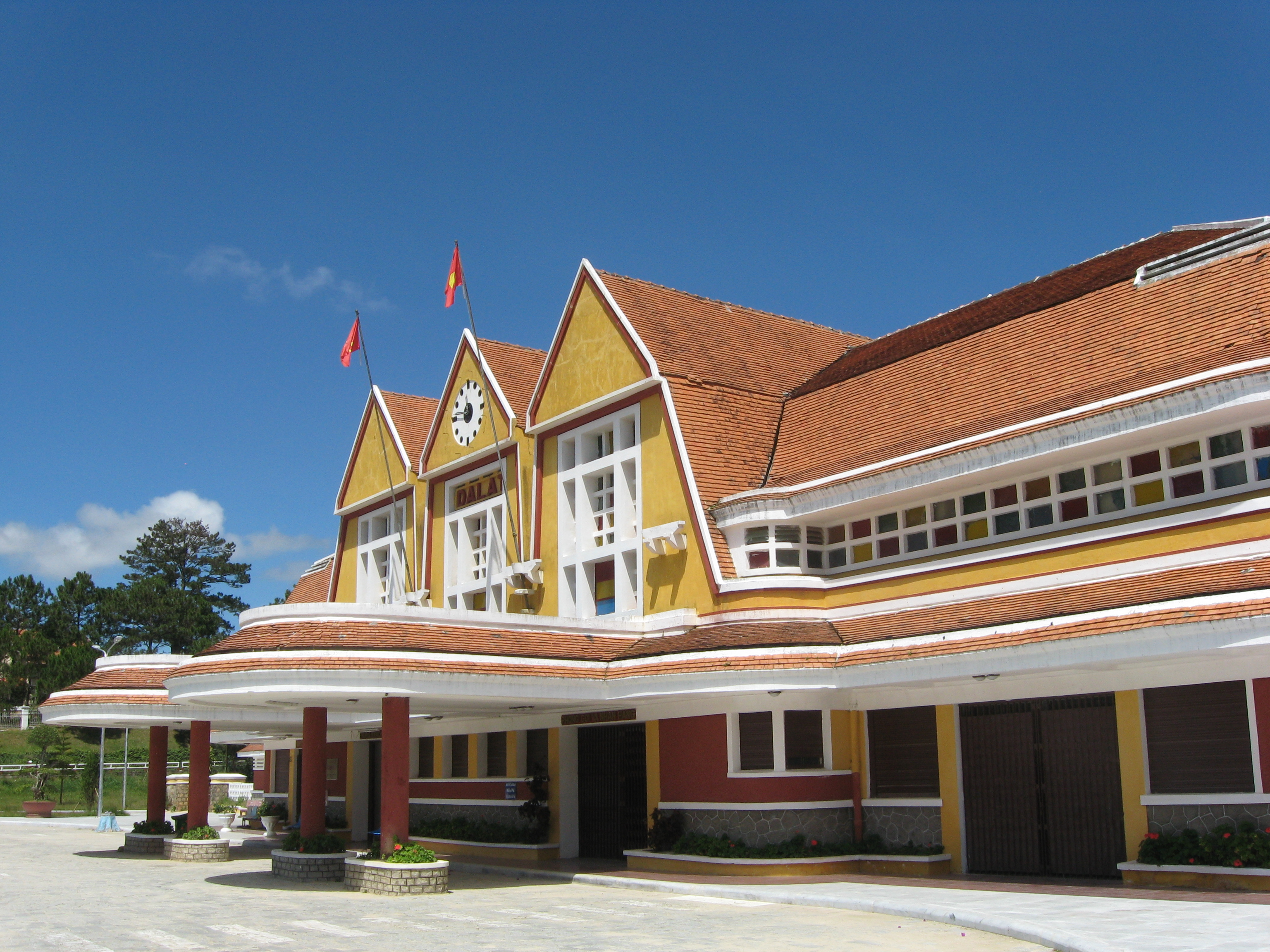 Da Lat train station